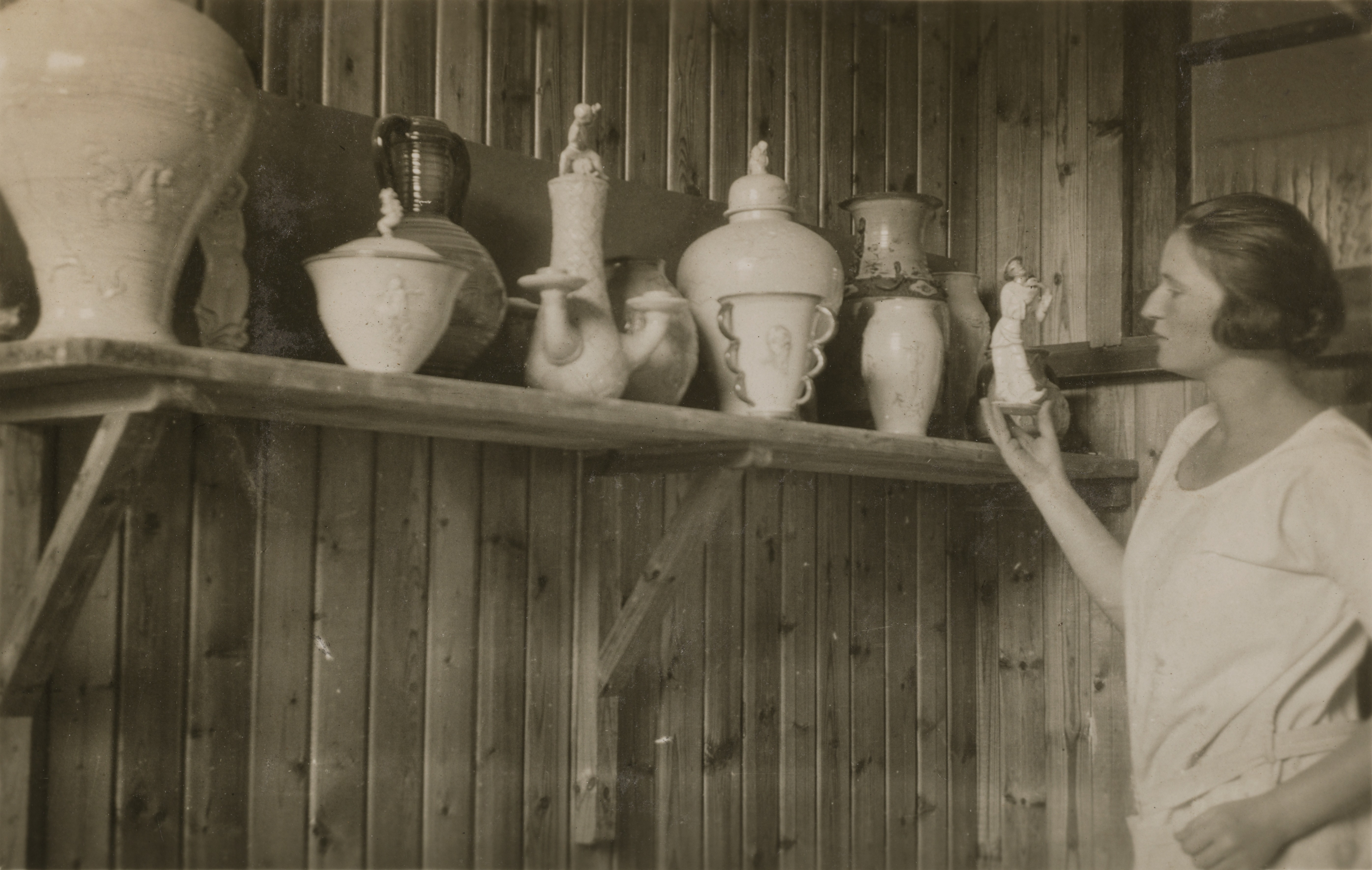 Friedl Holzer-Kjellberg in 1925 or 1926.